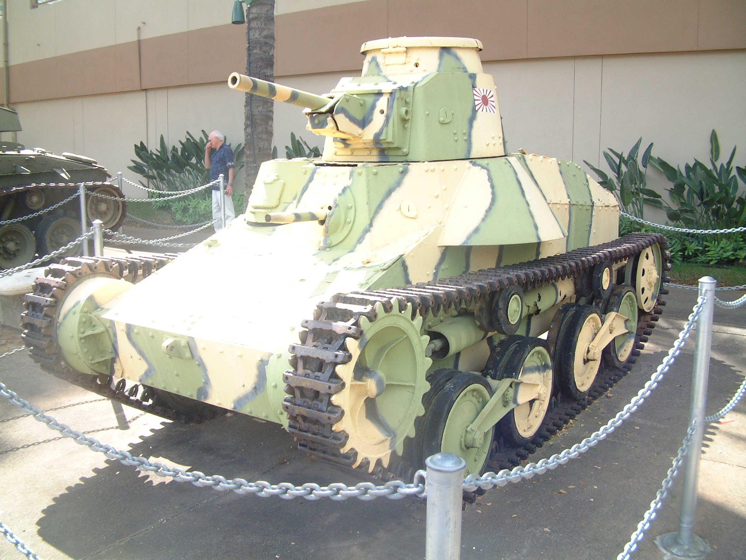 Type 95 tank that was captured during the Battle of Makin, November 20, 1943 by the 27th infantry division. Now on display at Battery Randolf US Army Museum, Honolulu. Other views: Image:Type 95 front right side 3-4 view.JPG Image:Type 95 rear view.JPG Image:Type 95 top rear 3-4 view.JPG Image:Type 95 wheel and treads detail.JPG